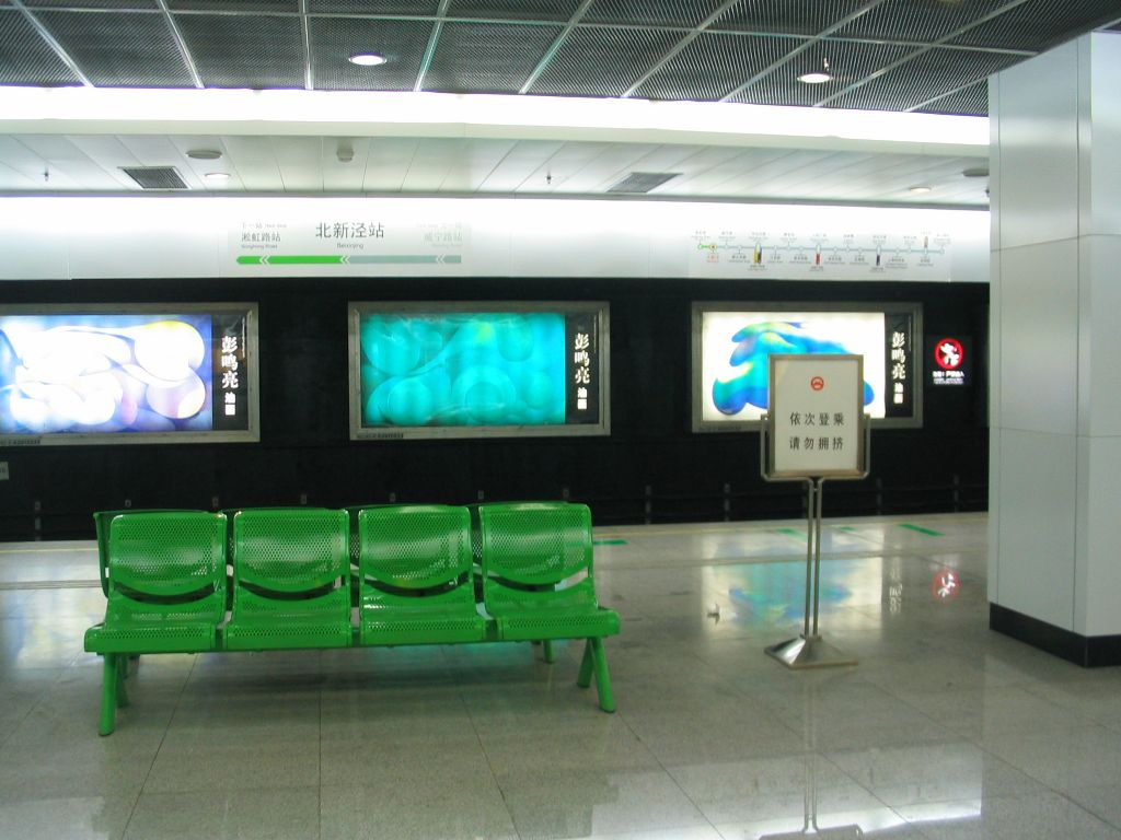 北新涇站-2號線月台 Line 2 Platform of Beixinjing Station